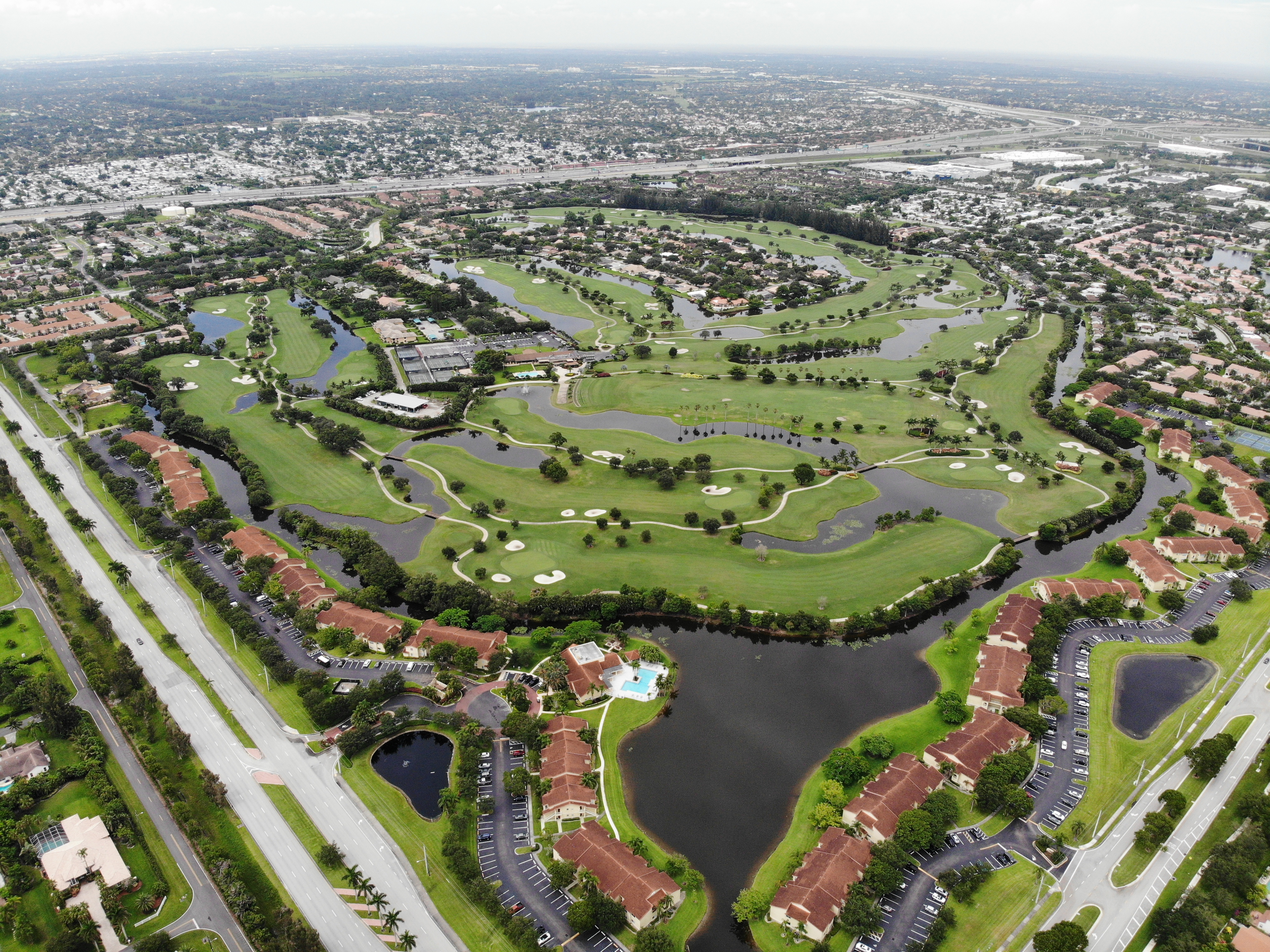 Aeriel shot of the Lago Mar Golf Course in Plantation, Florida. Interstate 595 is shown above the golf course and behind I-595 is the City of Davie.